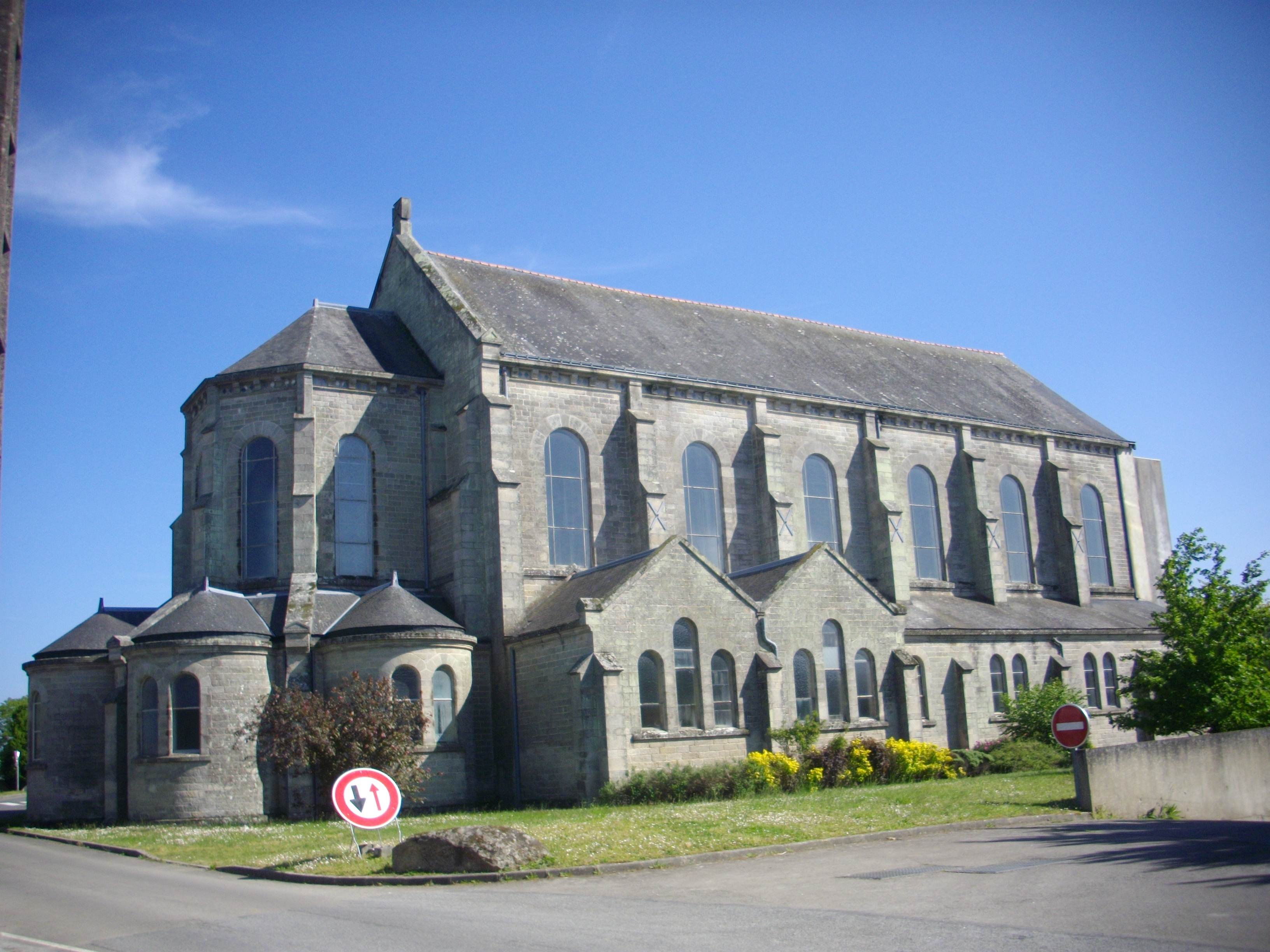 Prosper Chubert hospital of Vannes (Morbihan, France). Grador chapel